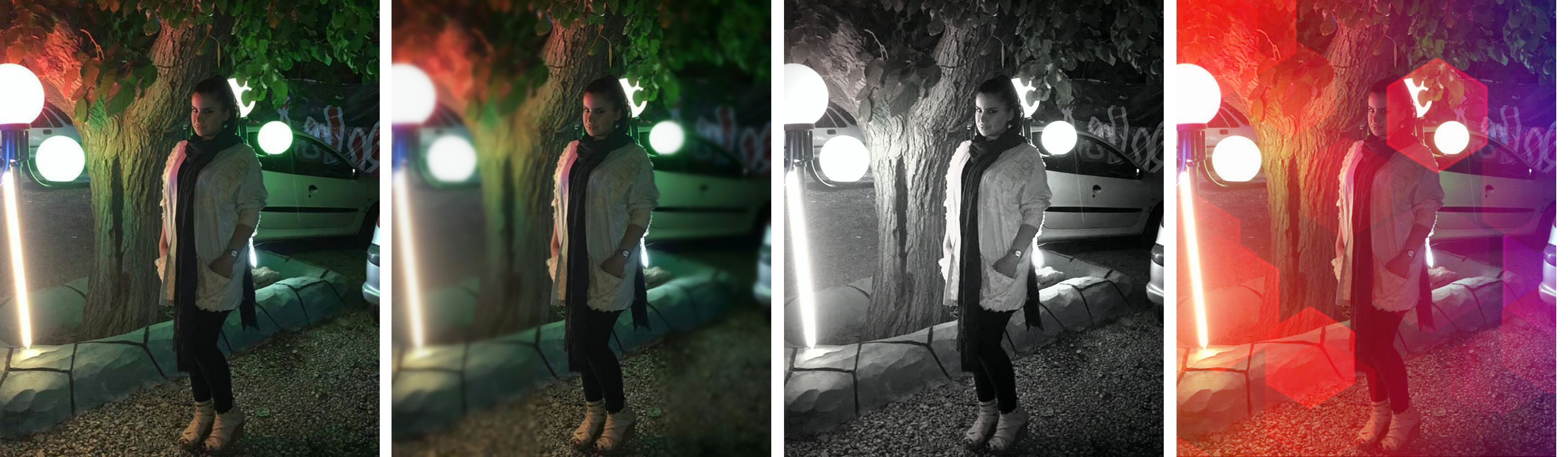 All four image belongs to me and are designed by me. I also uploaded individually.